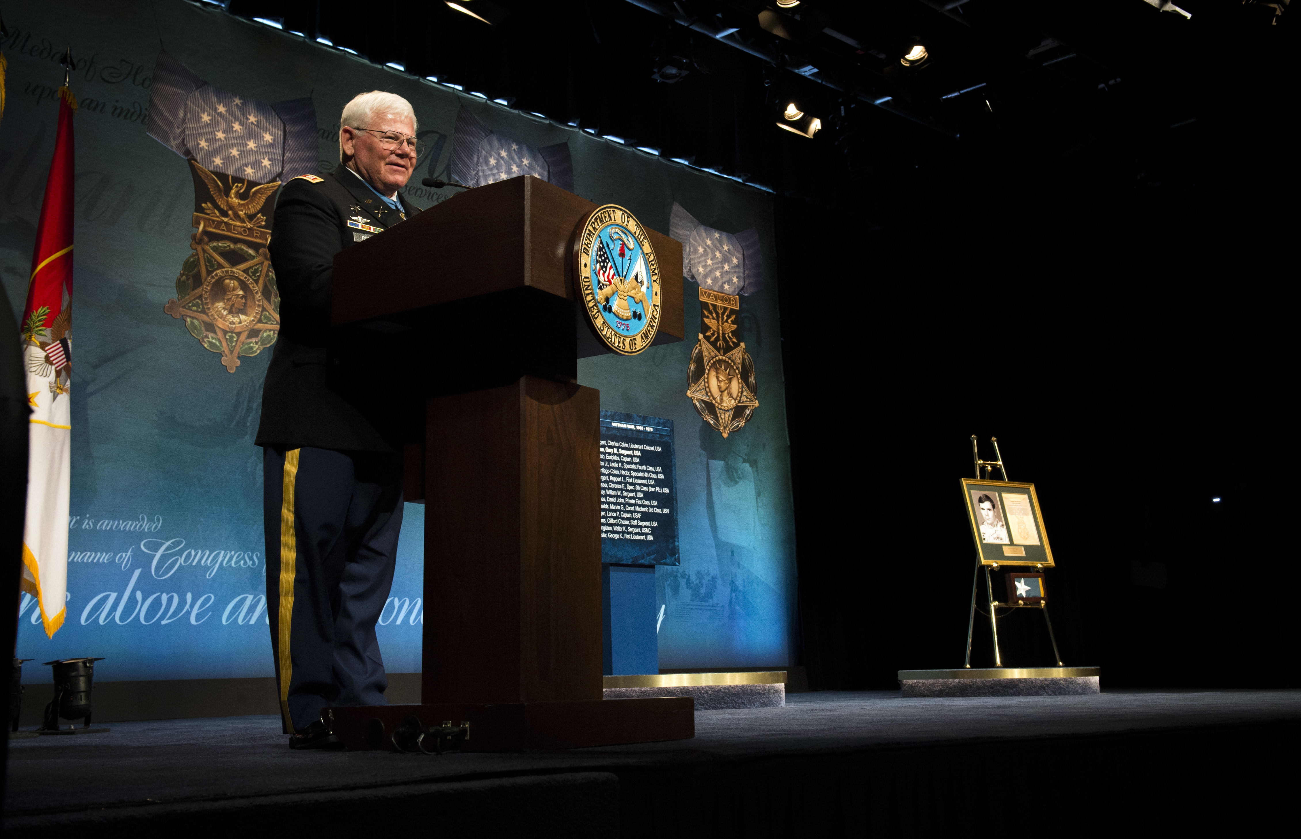 Retired Army Capt. Gary M. Rose, speaking at the Pentagon, received the Medal of Honor in 2017 for his heroic actions during Operation Tailwind. Moriarty spearheaded a media campaign to correct a false narrative about Tailwind published by CNN, then worked with other volunteers to ensure Rose was recognized.